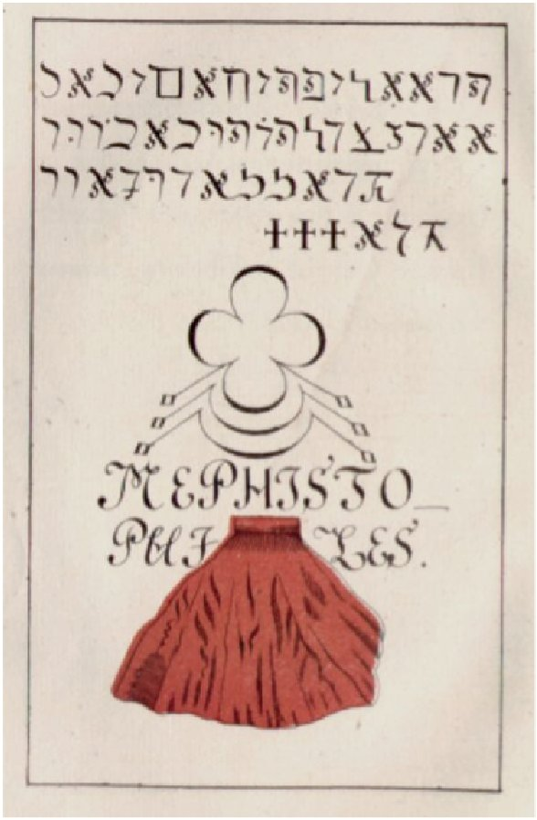 attestation of the name Mephistophiles